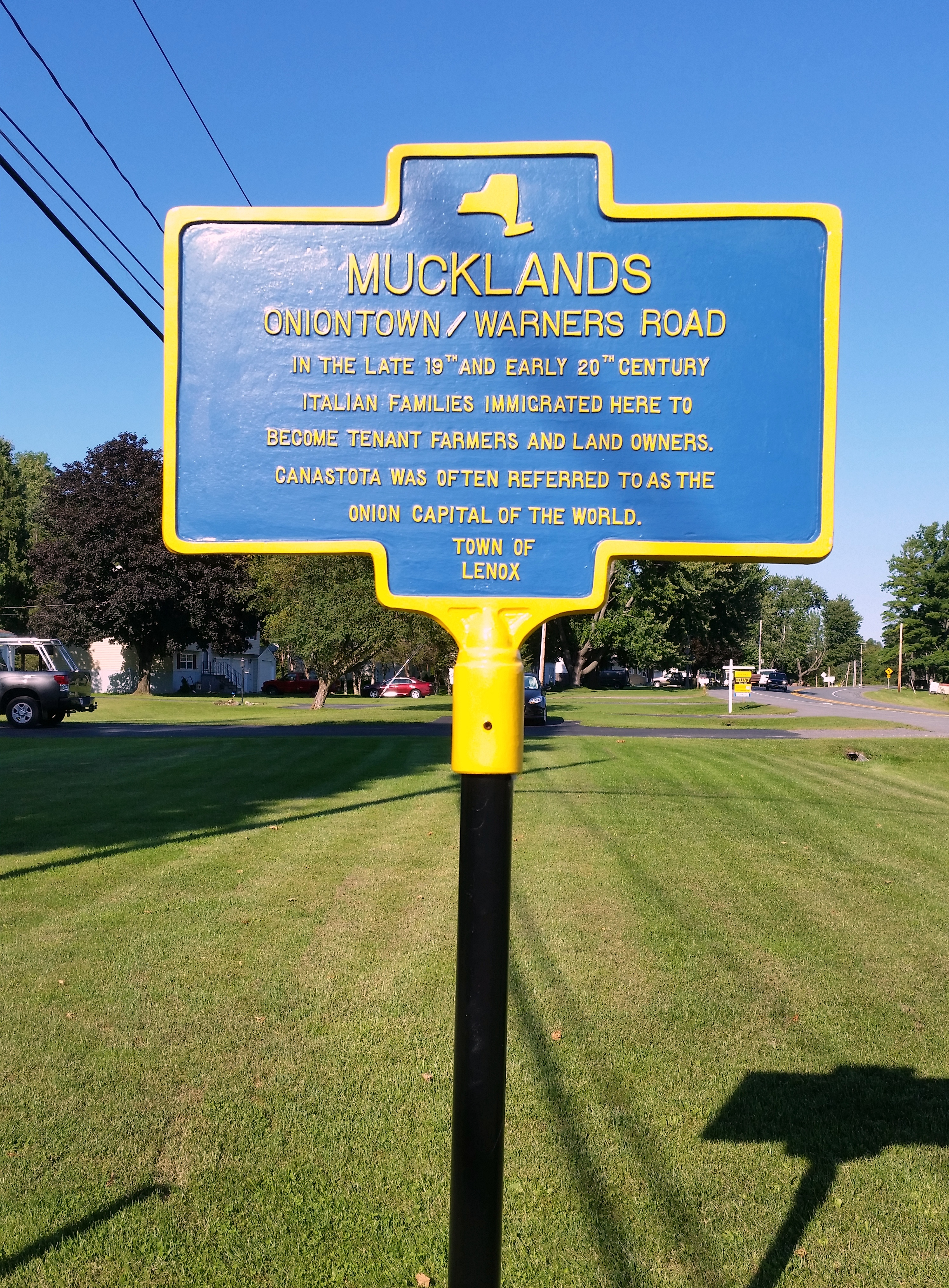 Historical marker, Canastota, New York. On Hwy 31, just to the north of I-90.